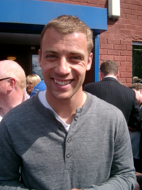 Andy Aitken (footballer born 1978) Scottish soccer player